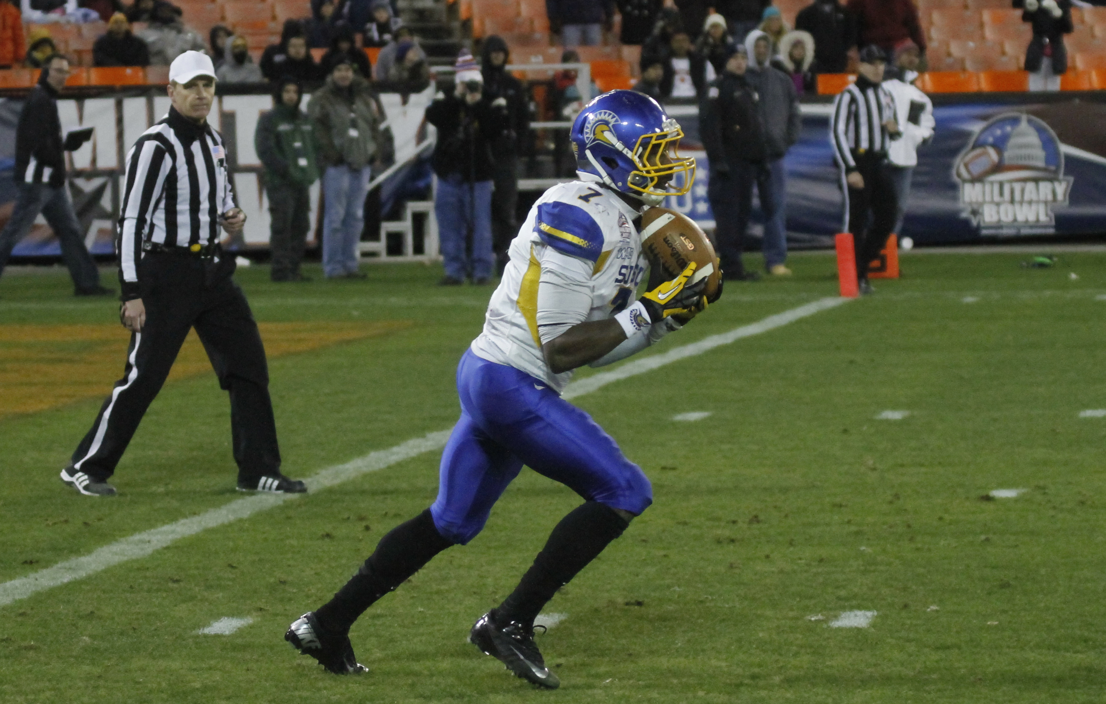 San Jose State running back Tyler Ervin returns a kickoff during the Military Bowl on Dec. 27, 2012.